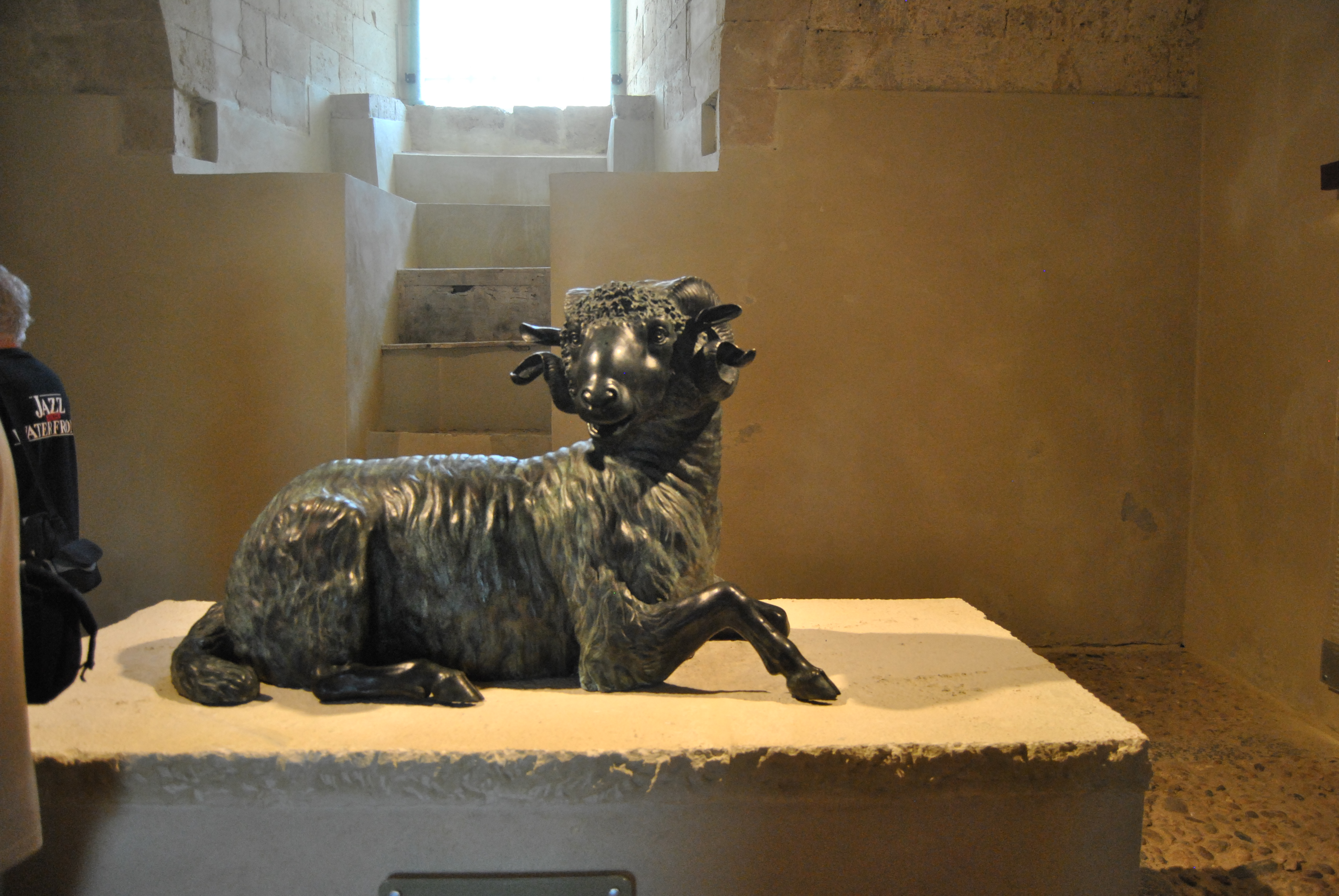 Ariete_in_bronzo,_sec._III_a.C._(copy)_-_Castel_Maniace/2.JPG